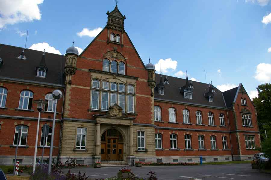 Main building of the hospital for nervous diseases in Longfield (Rhineland)